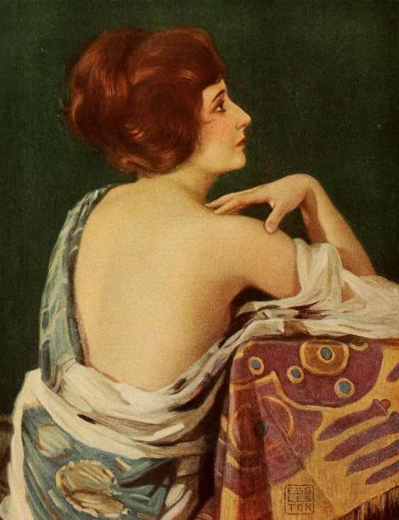 Actress Ruth Stonehouse painted by Benjamin Eggleston (1867-1937).[1]. From a photograph by Edwin Bower Hesser